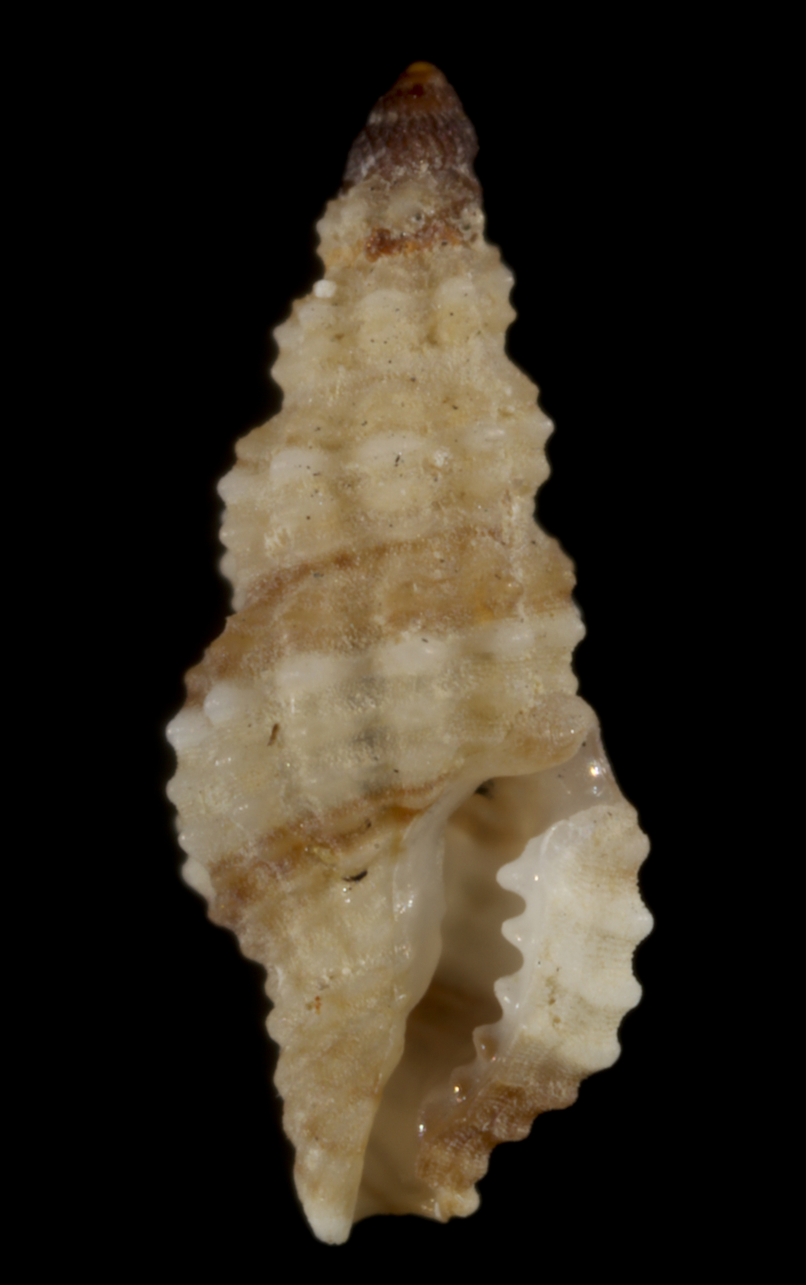 Kermia melanoxytum (Hervier, 1896) ; family Raphitomidae; Papua New Guinea